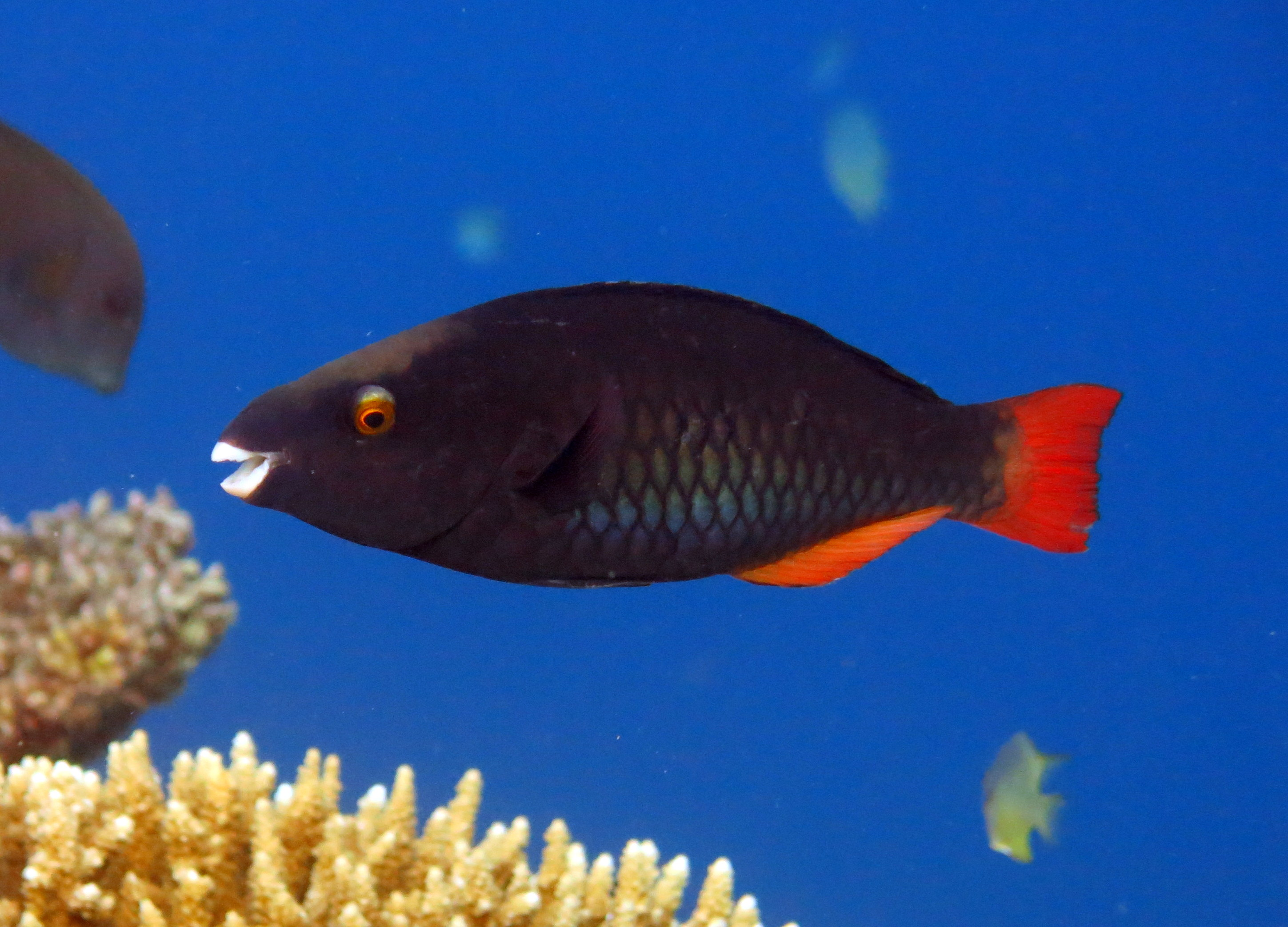 A female blue-faced parrotfish (Scarus tricolor) in Maldives (Baa atoll).